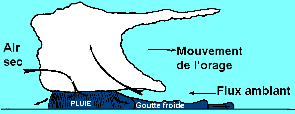 Cold poll under a thunderstorm due to downdraft